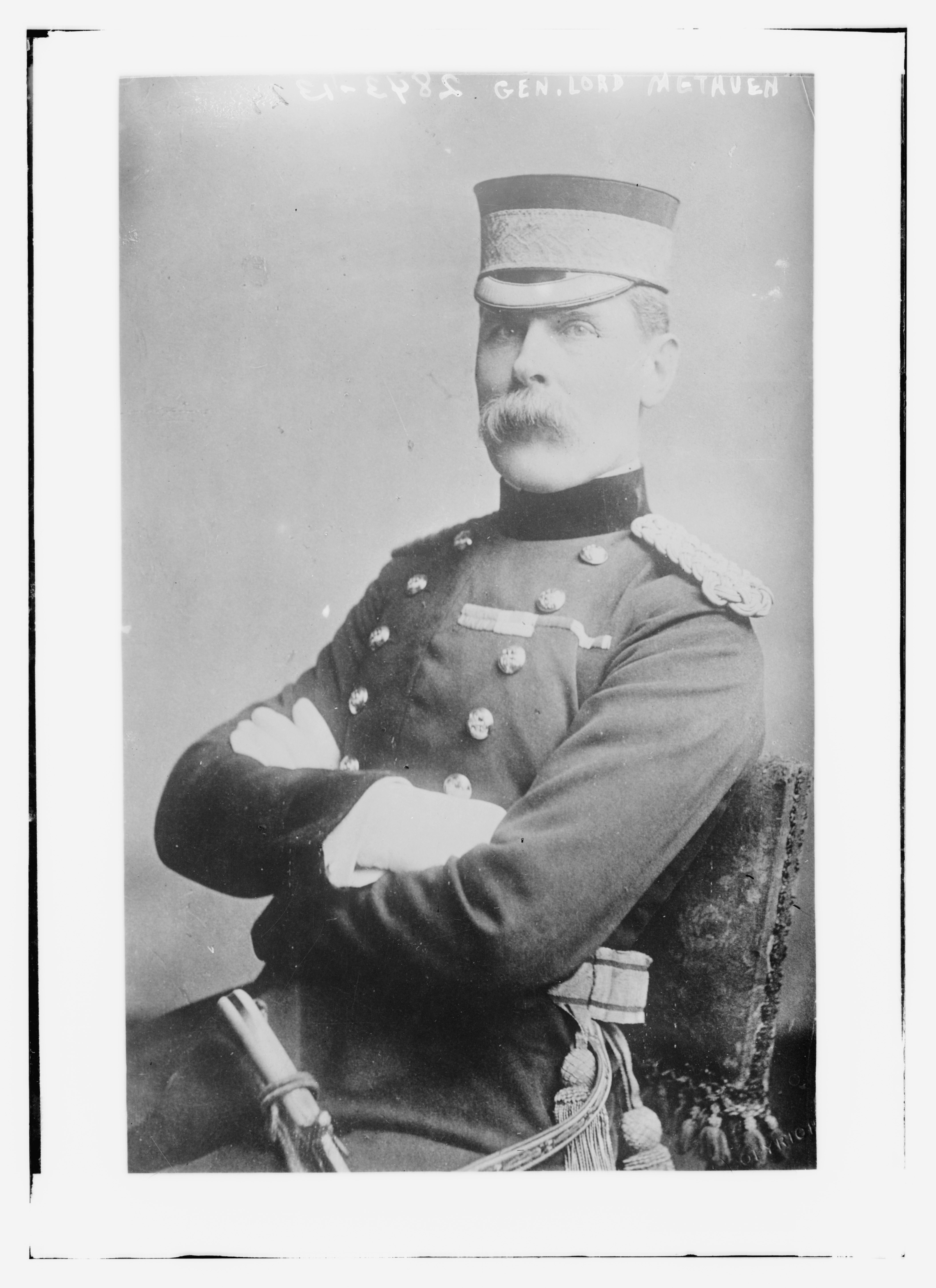 Title: Gen. Lord Methuen Abstract/medium: 1 negative : glass ; 5 x 7 in. or smaller.